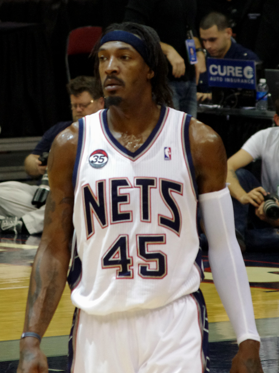 Gerald Wallace playing his first game as member of the New Jersey Nets.